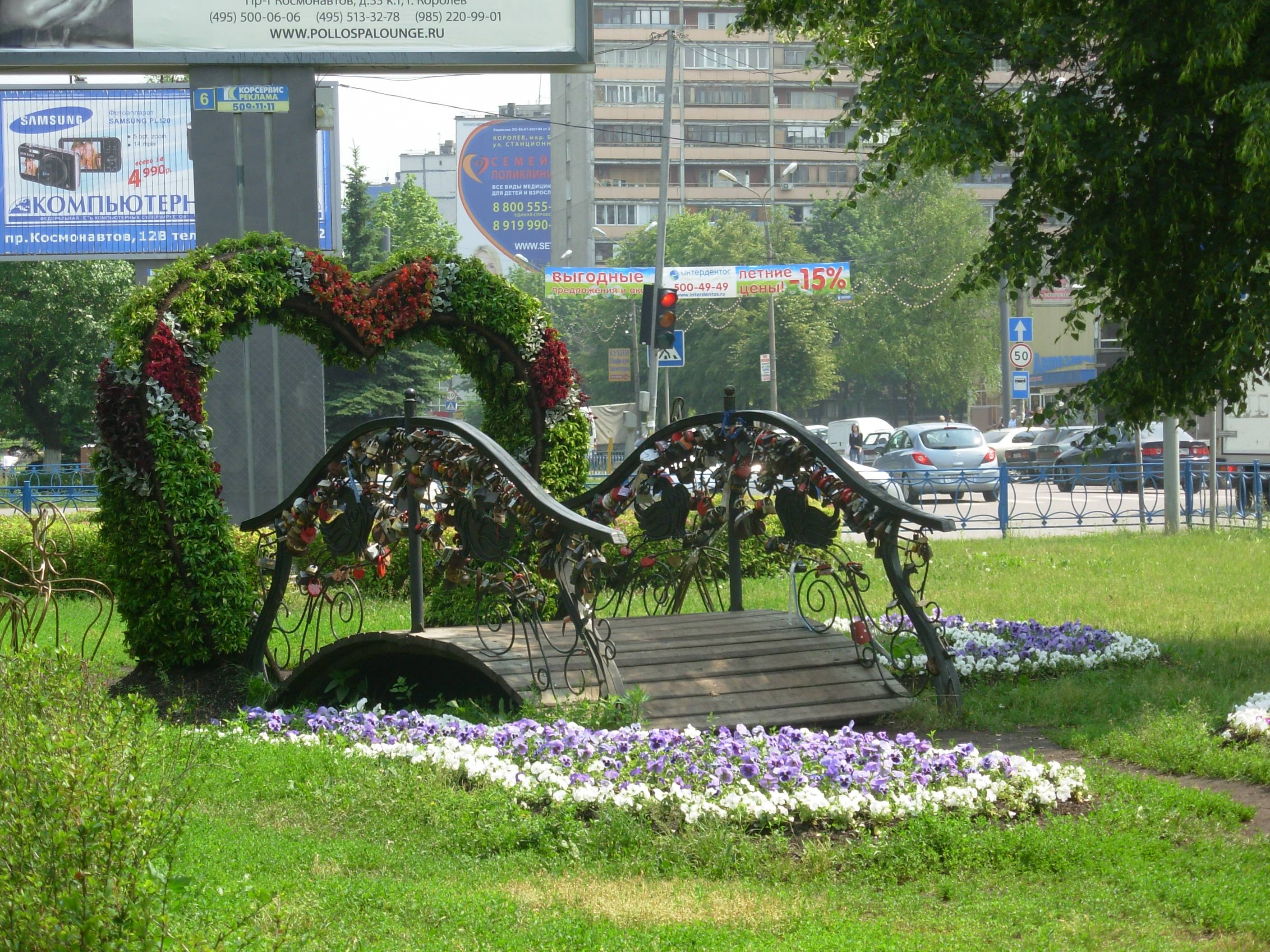 street